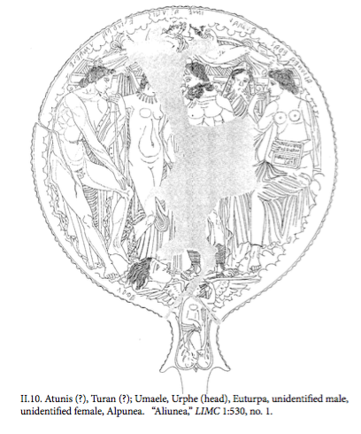 An Etruscan mirror depicting the prophet Umaele either guarding or interpreting the head of Urphe (Orpheus) for what appears to be a couple. The muse Euturpa (Euterpe) is present, while a woman labeled Aplunea records the prophecy.